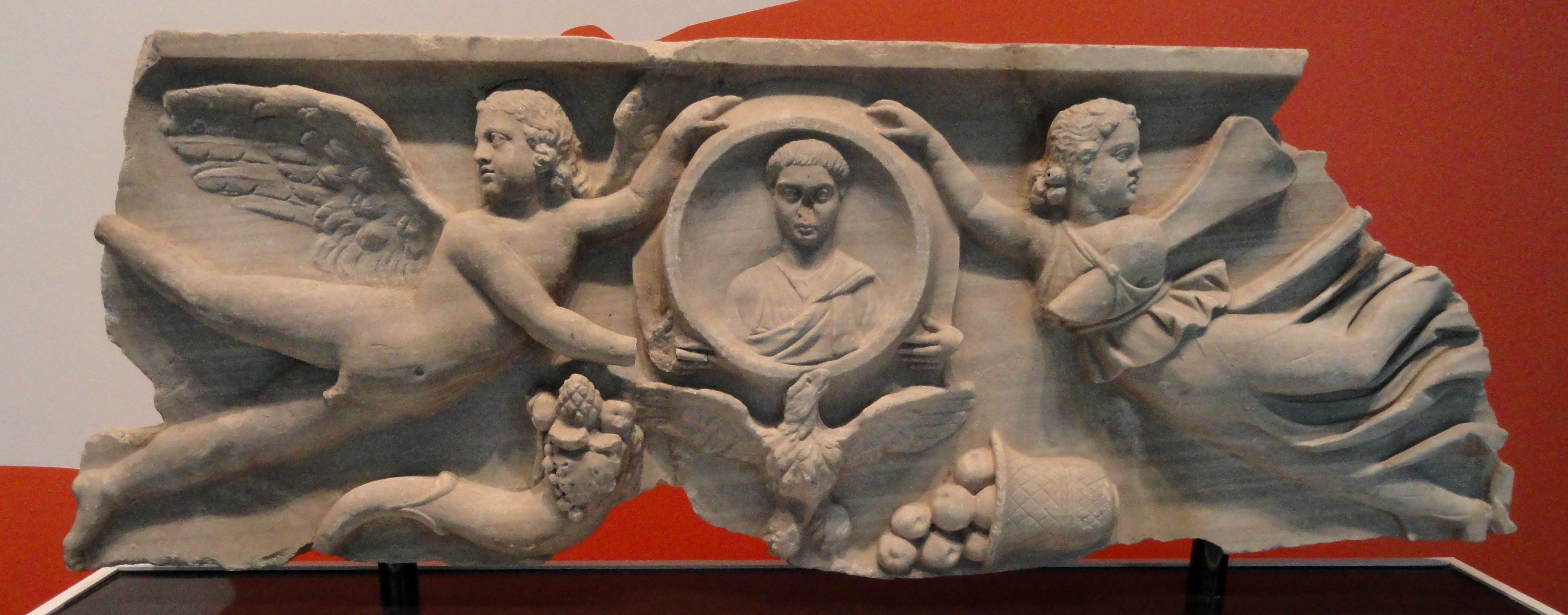 Exhibit in the Indianapolis Museum of Art, Indianapolis, Indiana, USA.